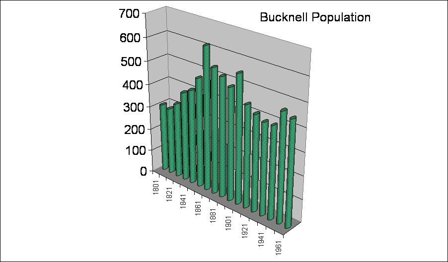 Created by me